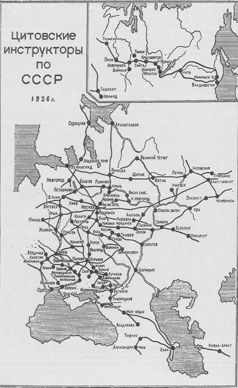 Central Institute of Labour Network